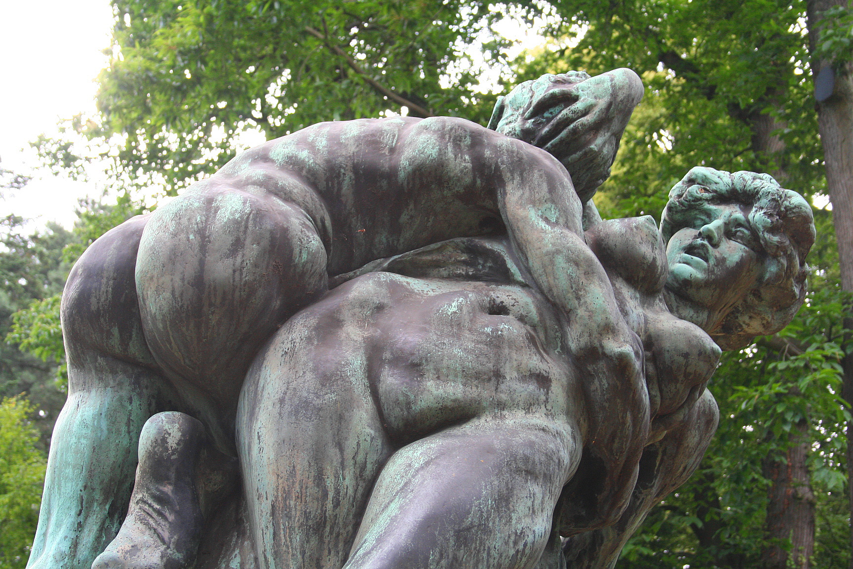 Morlanwelz (Belgium) - Parc de :Mariemont - Le Triomphe de la femme (The Triumph of the Women) sculpture by Jef Lambeaux (1901).